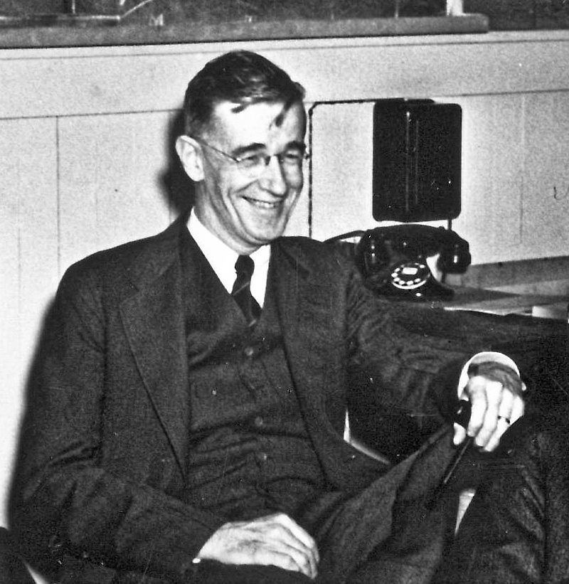 Vannevar Bush at Berkeley (29 March 1940); a crop of File:HD.1A.018 (14651763814).jpg